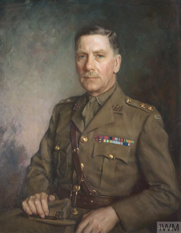 A half length portrait of Lieutenant-Colonel James Carne VC wearing uniform and seated, holding his cap on his lap. His many medal ribbons are displayed on his chest.